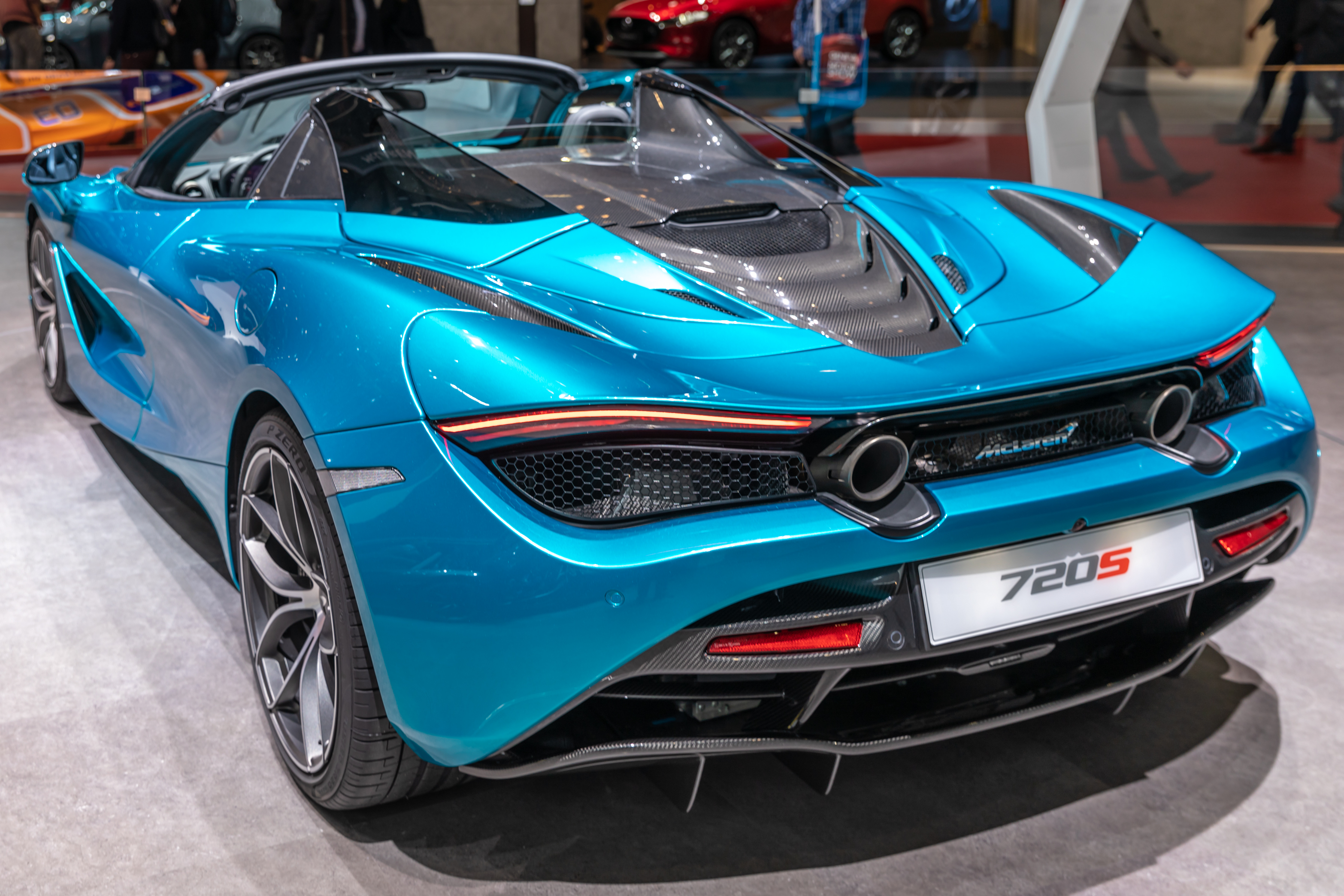 McLaren 720S Spider at Geneva International Motor Show 2019, Le Grand-Saconnex